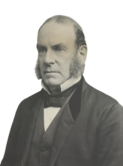 James Evans Rhoads portrait circa 1885 with background removed